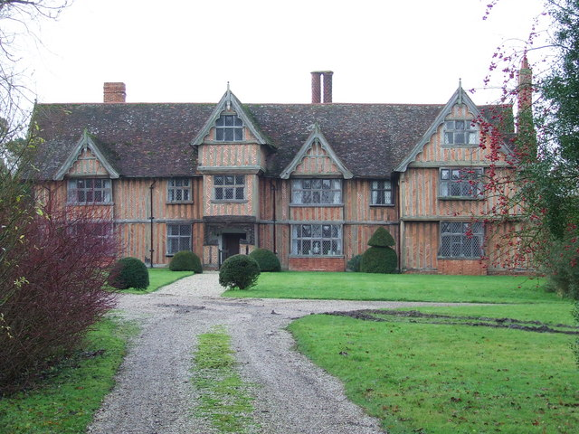 Thurston End Hall in the civil parish of Hawkedon, Suffolk, England. A Grade I listed country house.